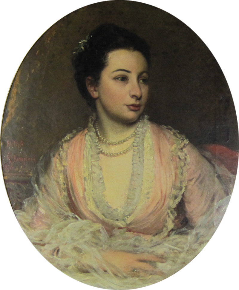 Elizabeth Marianne Wood, resident of Henley Hall Lumsden, 1876